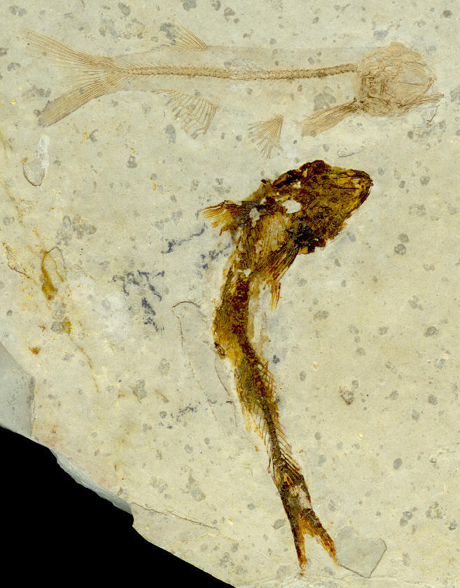 A pair of Lycoptera_davidi the horizontal specimen being 7.7cm long from the Liaoning province, China